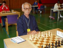 Peshev Tsvetan, XIII World Individual Deaf Chess Championships, Malente, Germany - 23rd July - 5th August 2004